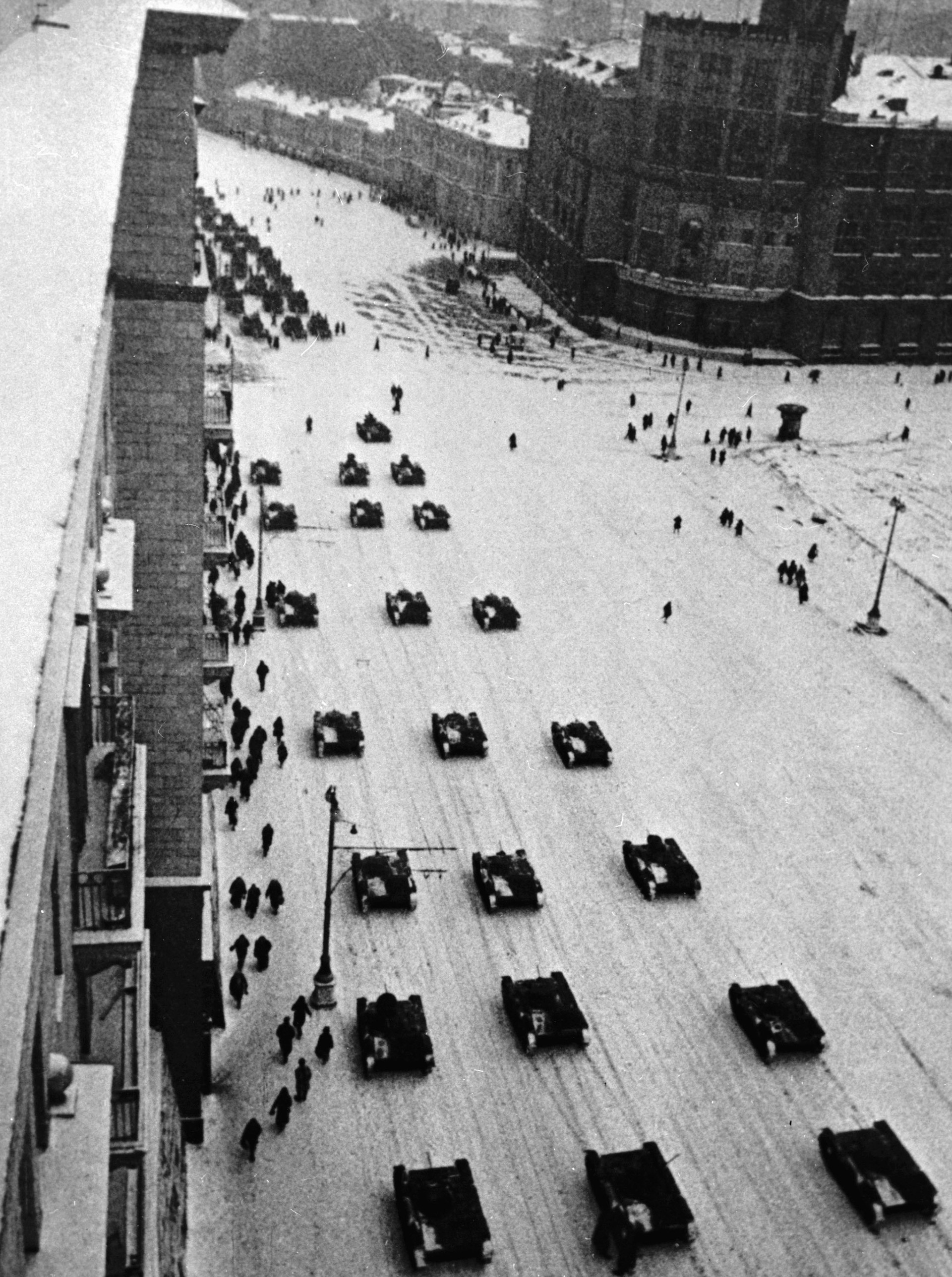 “Tanks heading for the front”. Tanks heading for the front from a Red Square parade